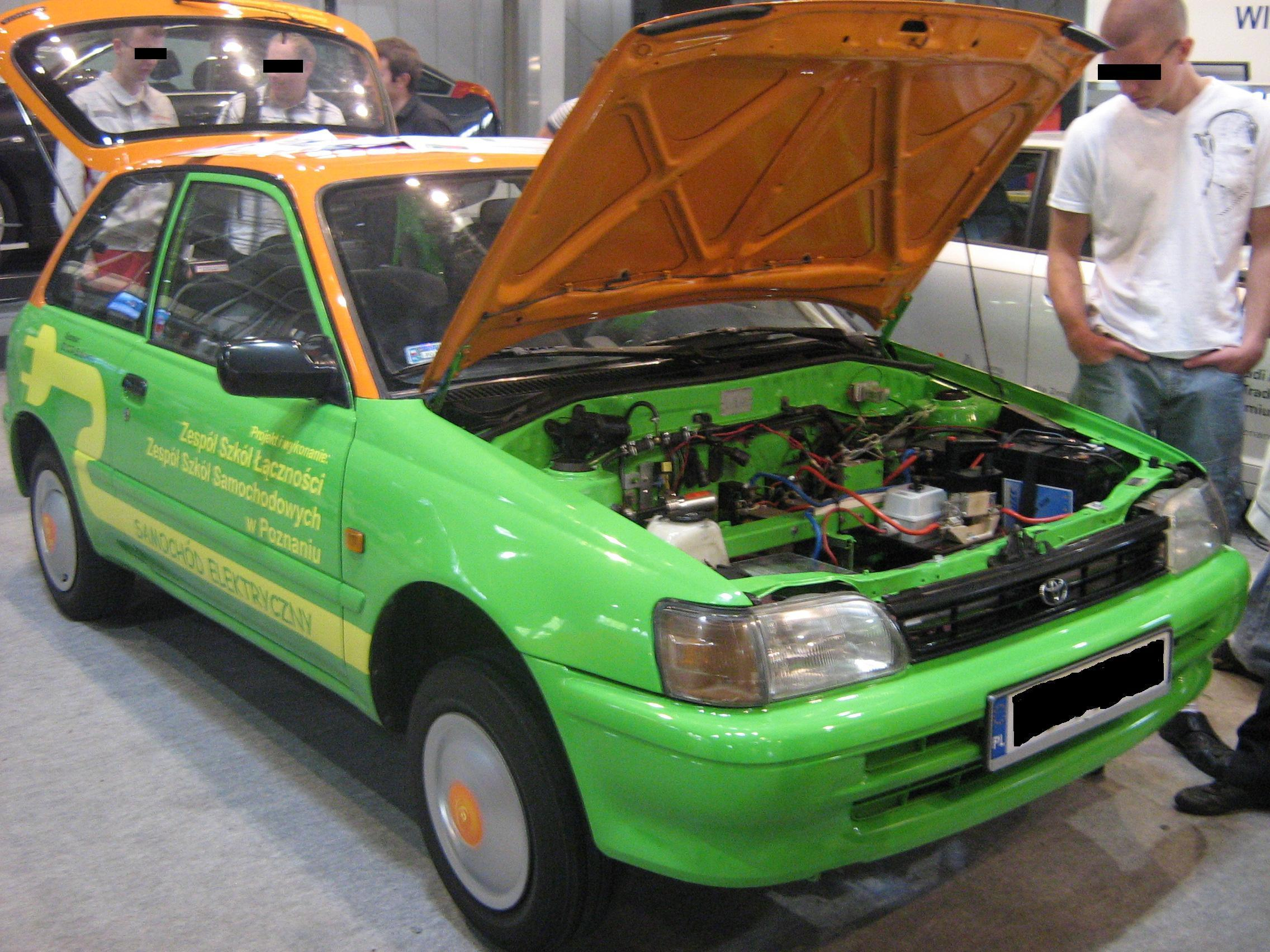 Electric Toyota Starlet second generation by Poznan students built - PSM 2009 in Poznan.